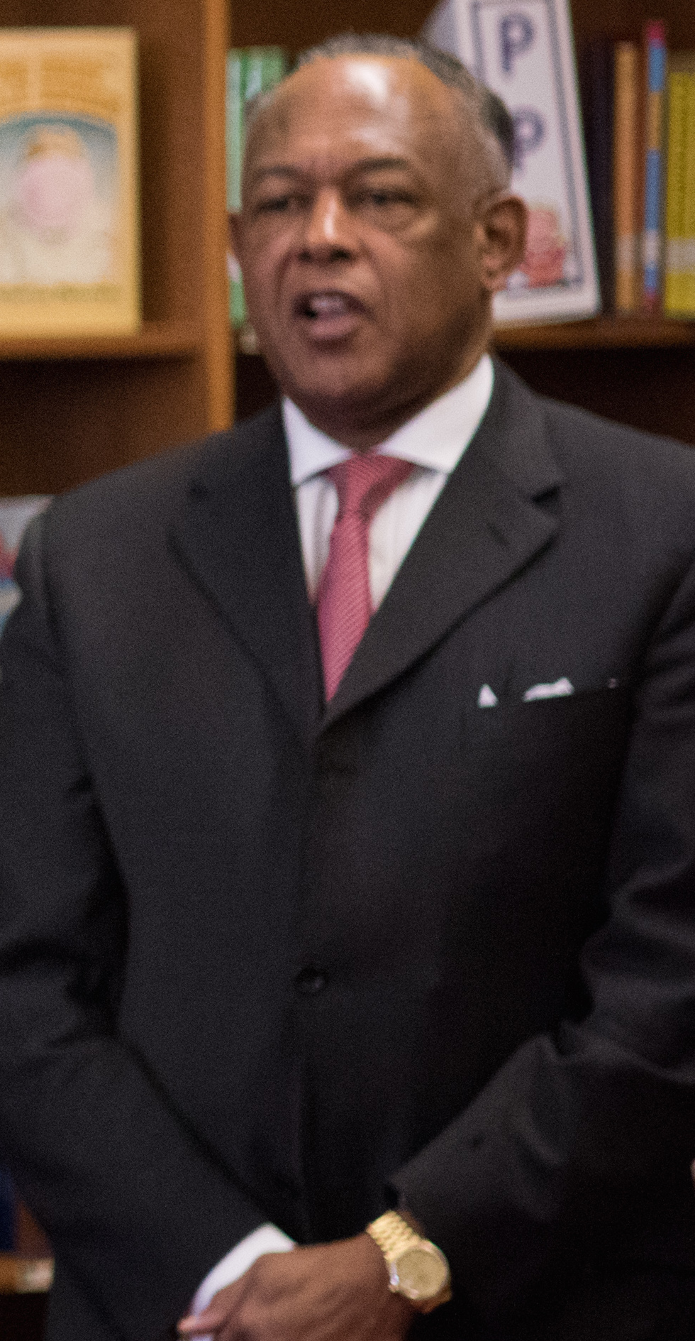 Virginia Governor Terry McAuliffe (at podium), Agriculture Secretary Tom Vilsack (left), and Virginia First Lady Dorothy McAuliffe, Richmond Public Schools Superintendent Dr. Dana Bedden and Richmond Mayor Dwight Jones at the Woodville Elementary to announce innovative new initiatives aimed at ending childhood hunger, and the national expansion of Team Up for Success in schools in Richmond, VA, the projects are funded by the Healthy, Hunger Free Kids Act, enacted in 2010 with bipartisan support in Richmond, VA, on Monday, March 9, 2015. Governor McAuliffe delivers remarks about the importance of expanding trade and boosting agricultural exports. USDA photo by Lance Cheung.